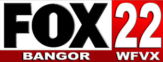 Logo of the television station WFVX-LD used between 2003 and 2012 (and was the station logo during the entirety of its analog days).